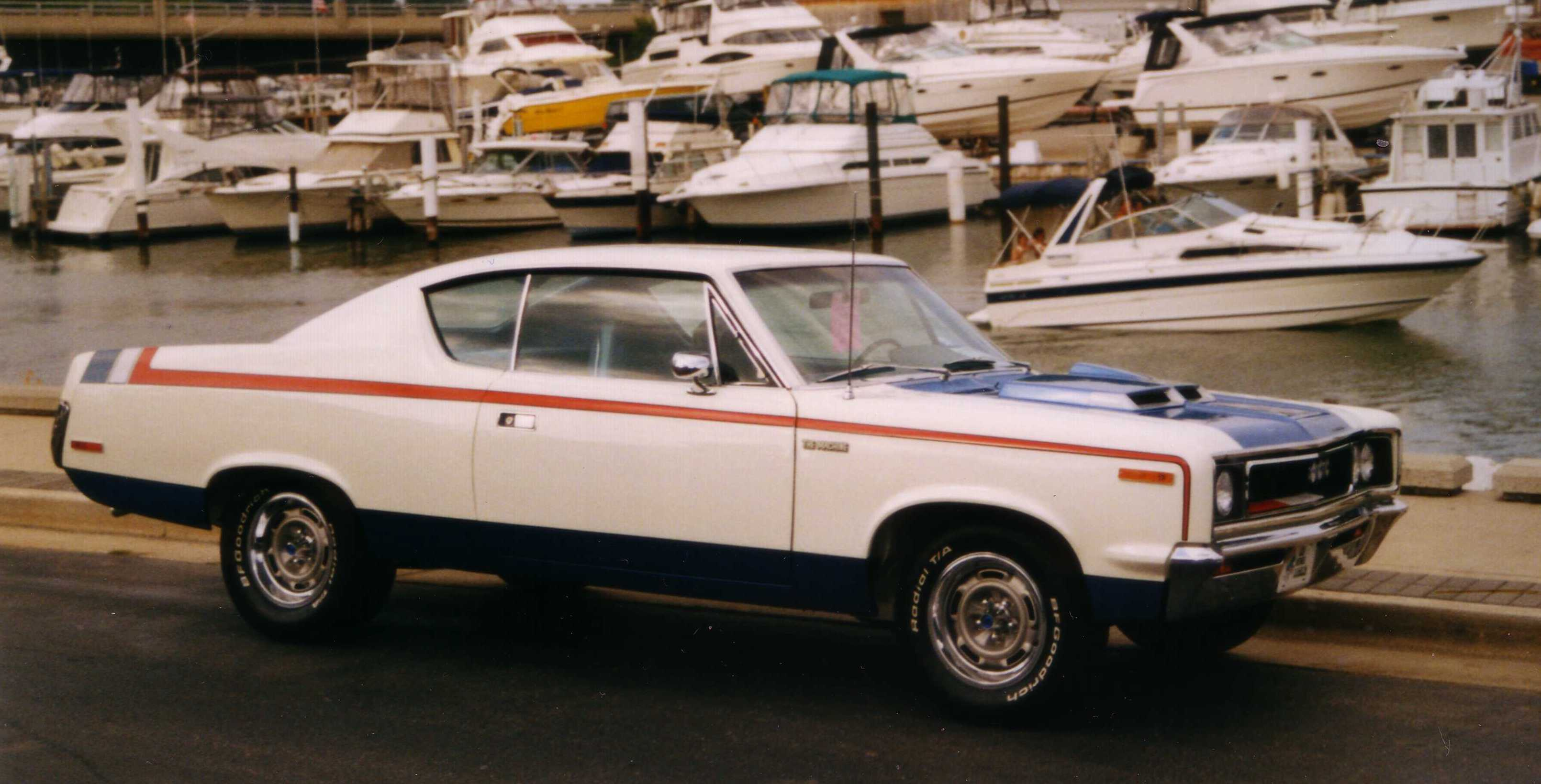 American Motors Corporation (AMC) 1970 Rebel two-door hardtop (coupe) - The Machine, a traditional mid-sized U.S. muscle car finished in the factory red/white/blue trim. Photographed in Kenosha, Wisconsin, opposite a marina in the town.